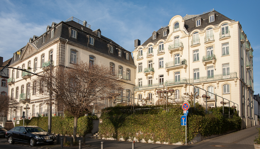 Former hotel “Düsseldorfer Hof”, Rheinallee 14, Königswinter, Germany